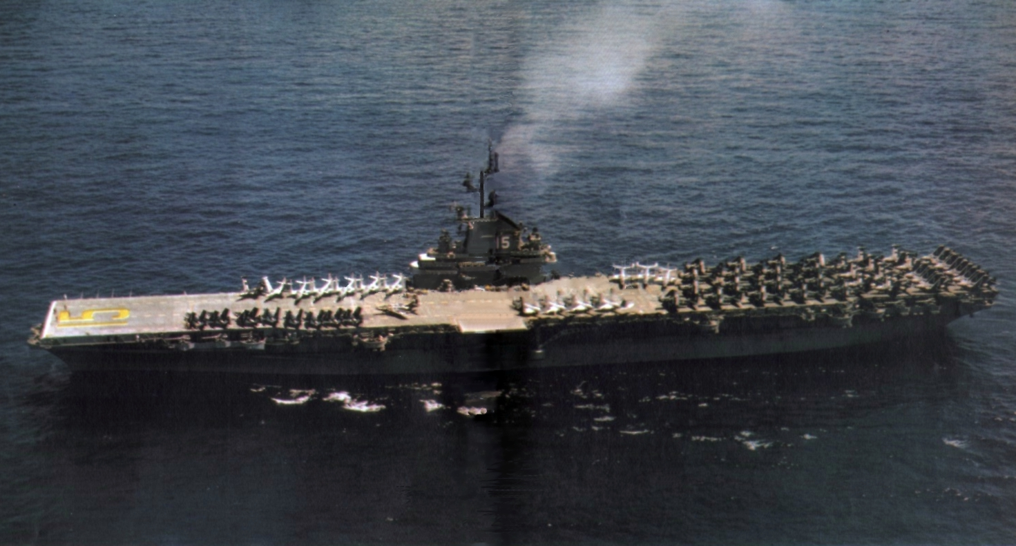 The U.S. Navy aircraft carrier USS Randolph (CVA-15) underway in 1954. Randolph was deployed to the Mediterranean Sea with Carrier Air Group 14 (CVG-14) aboard from 3 February to 6 August 1954.